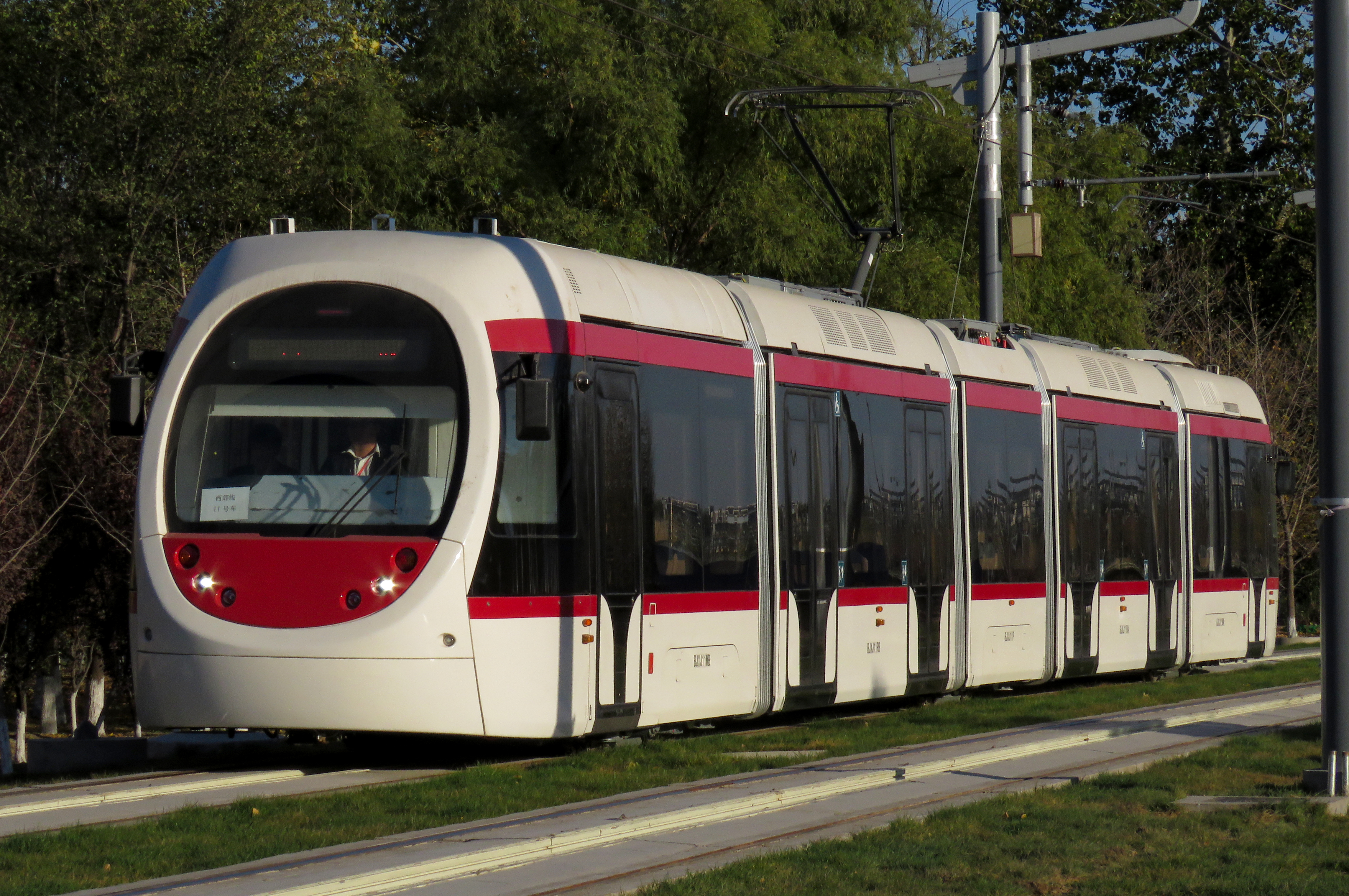 Still have no idea...